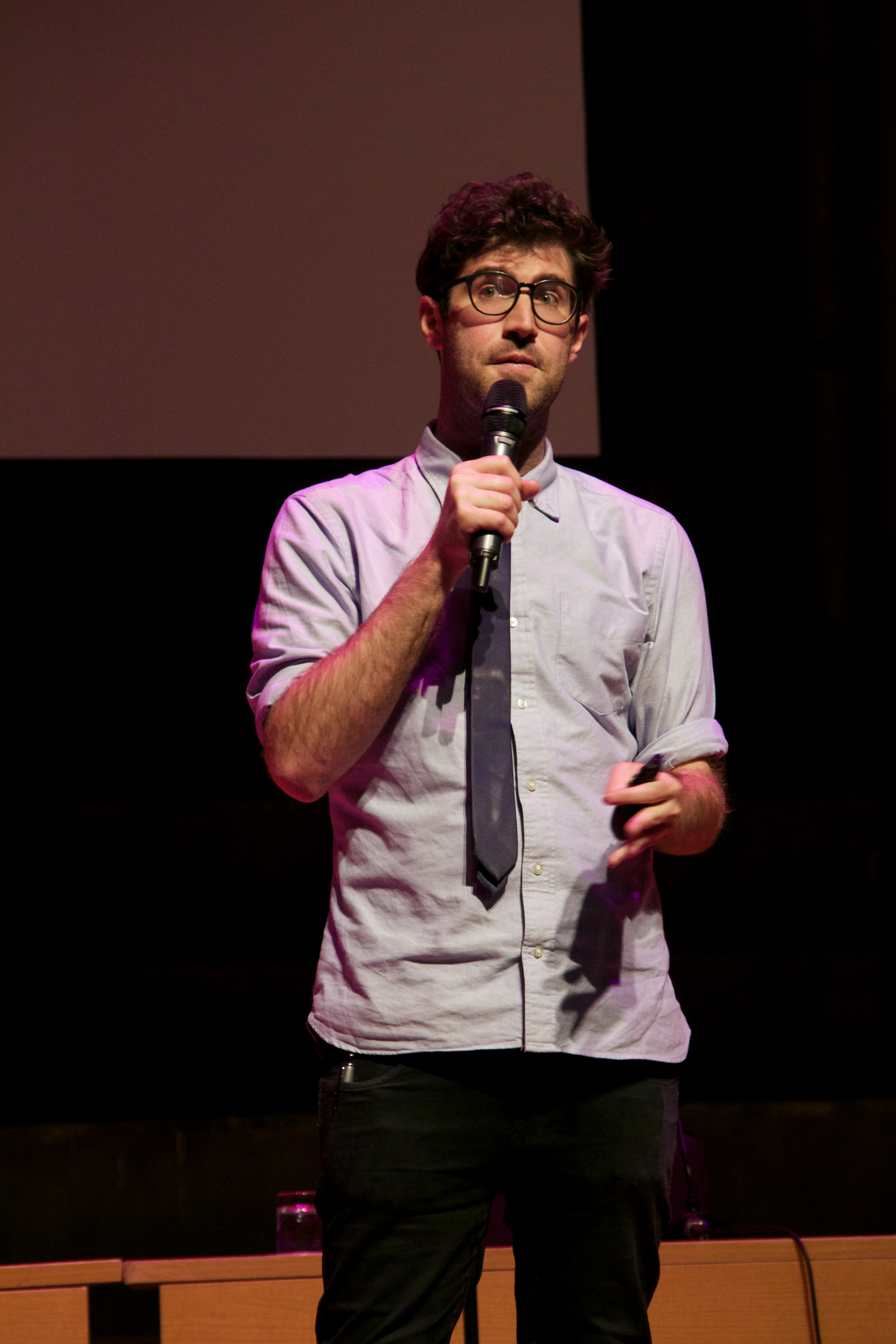 Wikimania 2014